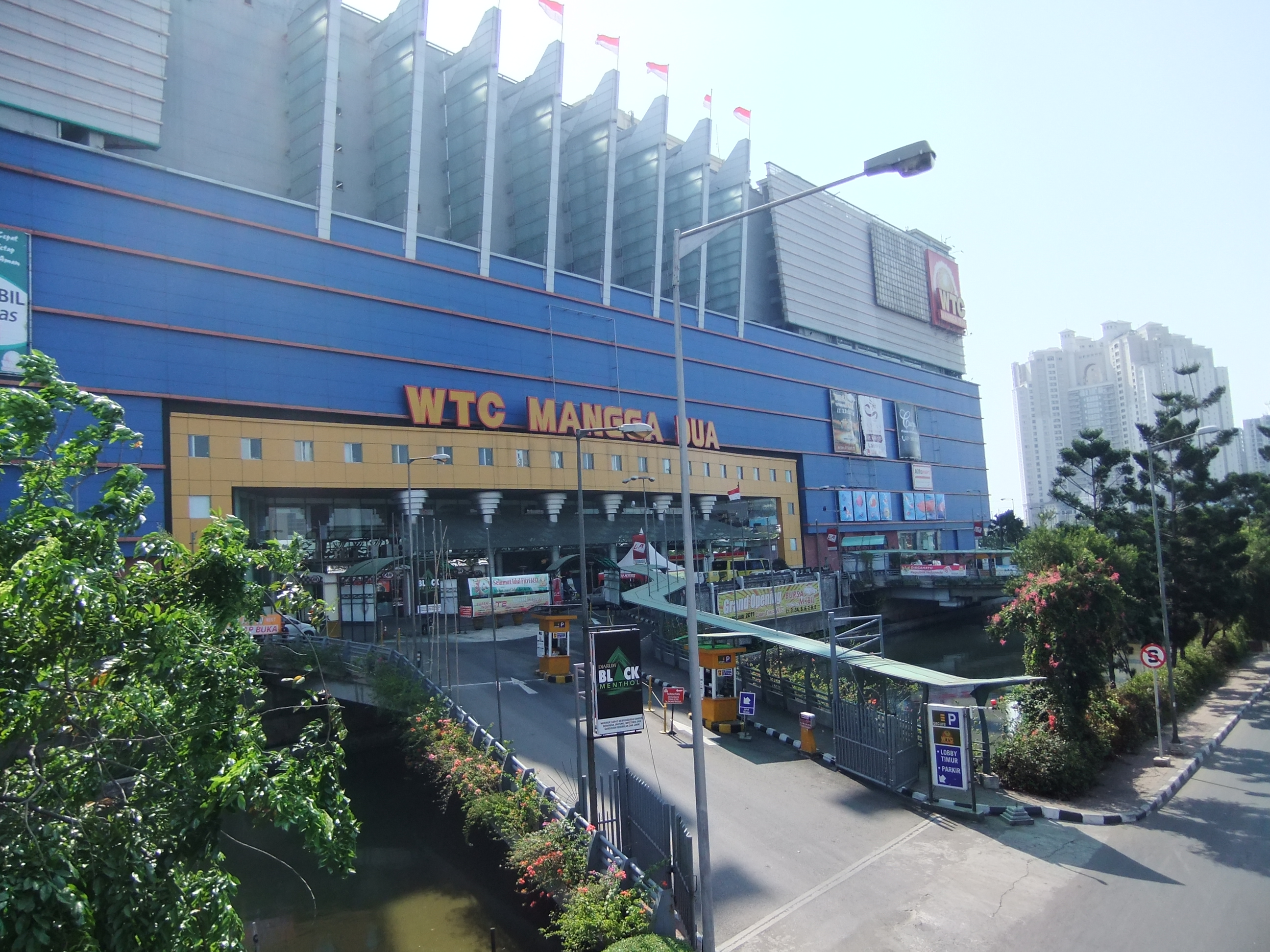 WTC Mangga Dua, Jalan Gunung Sahari, Jakarta, Indonesia